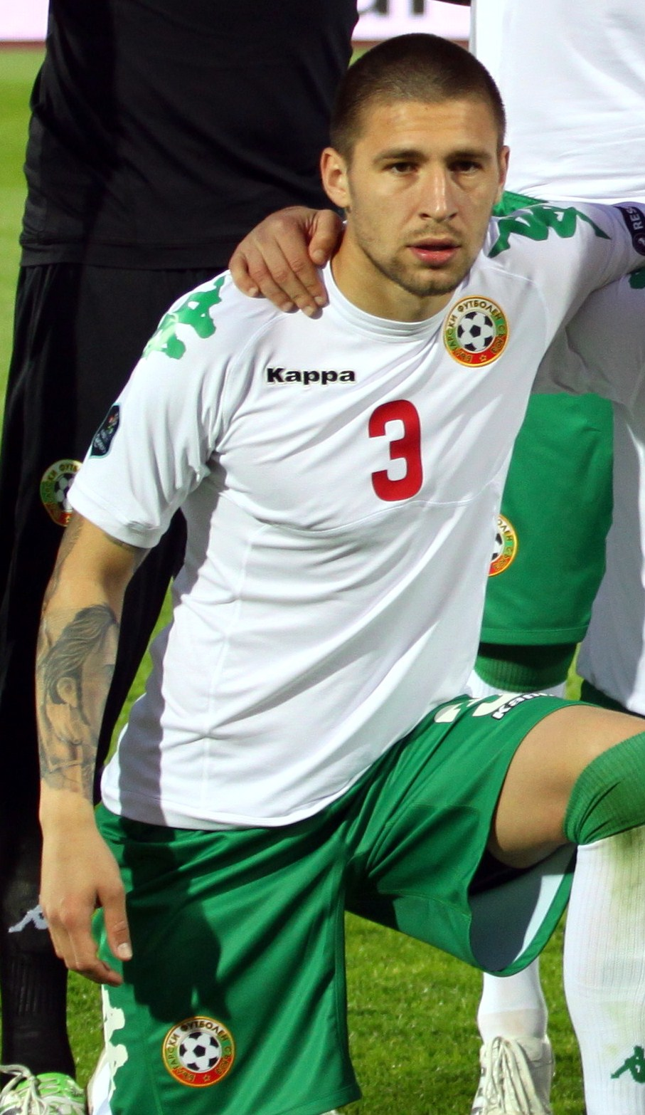 Ivan Bandalovski